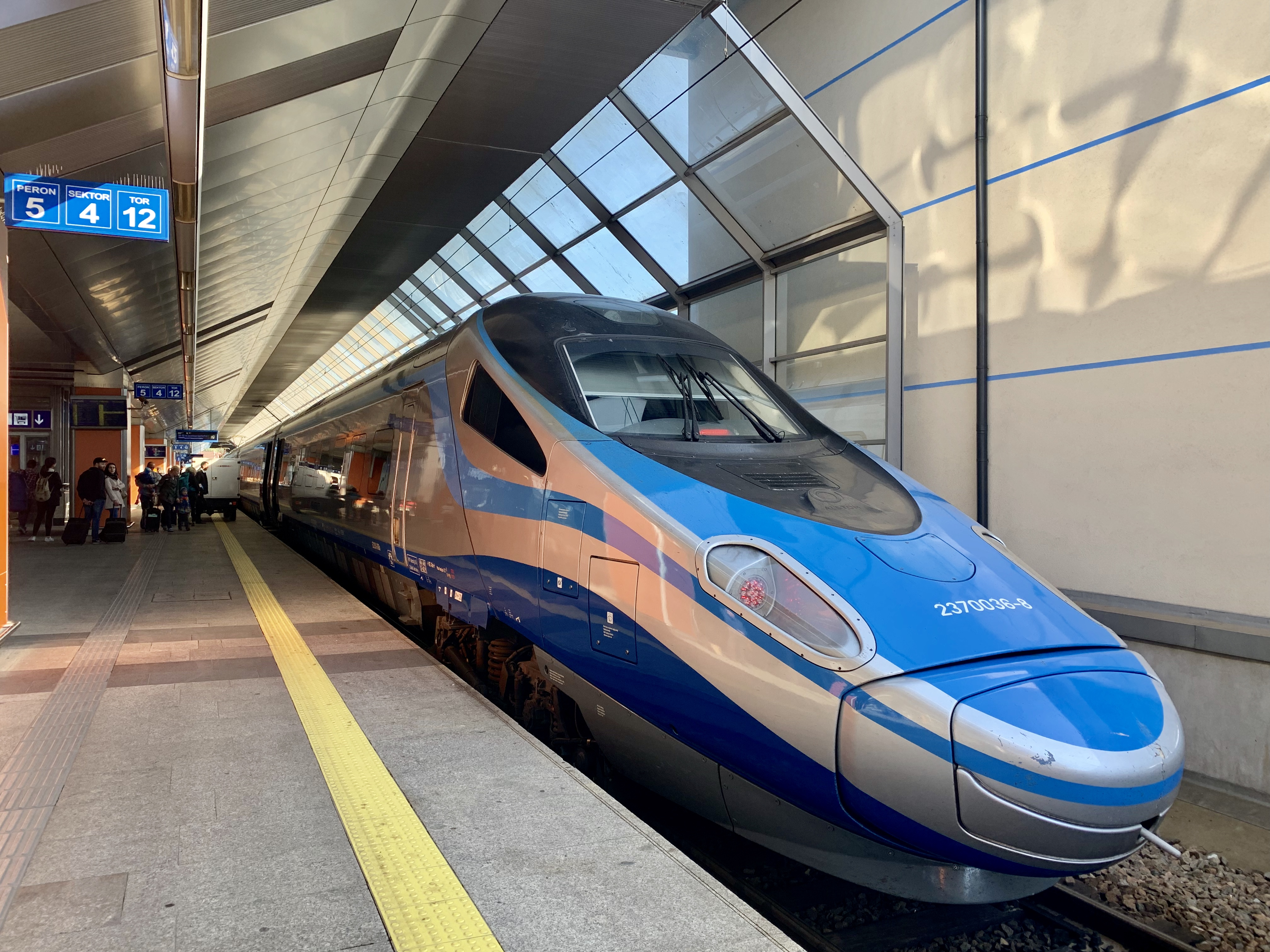 PKP Intercity train at Kraków Główny train station closeup, Poland, 2019